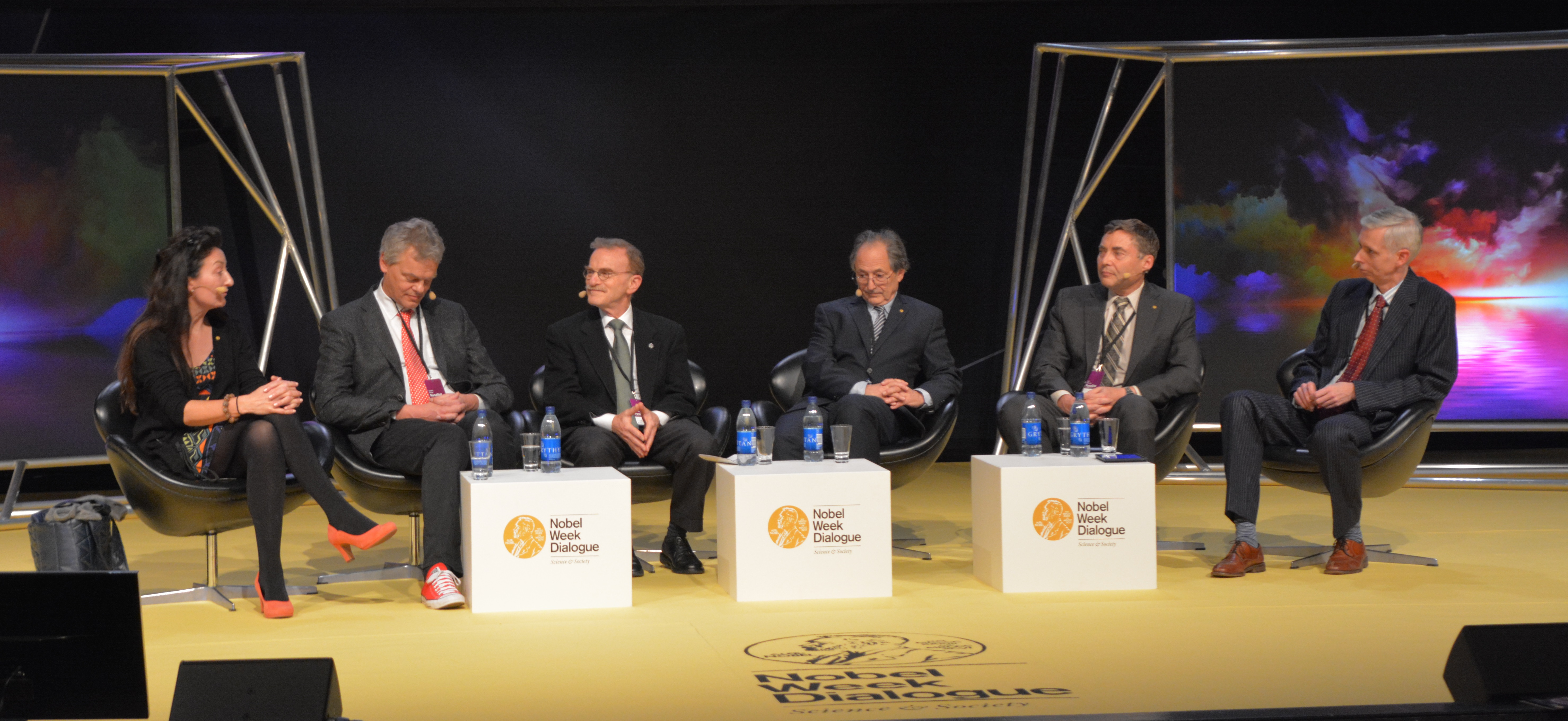 May-Britt Moser, Edvard Moser, Randy Schekman, Michael Levitt, Carl Wieman, Adam Smith